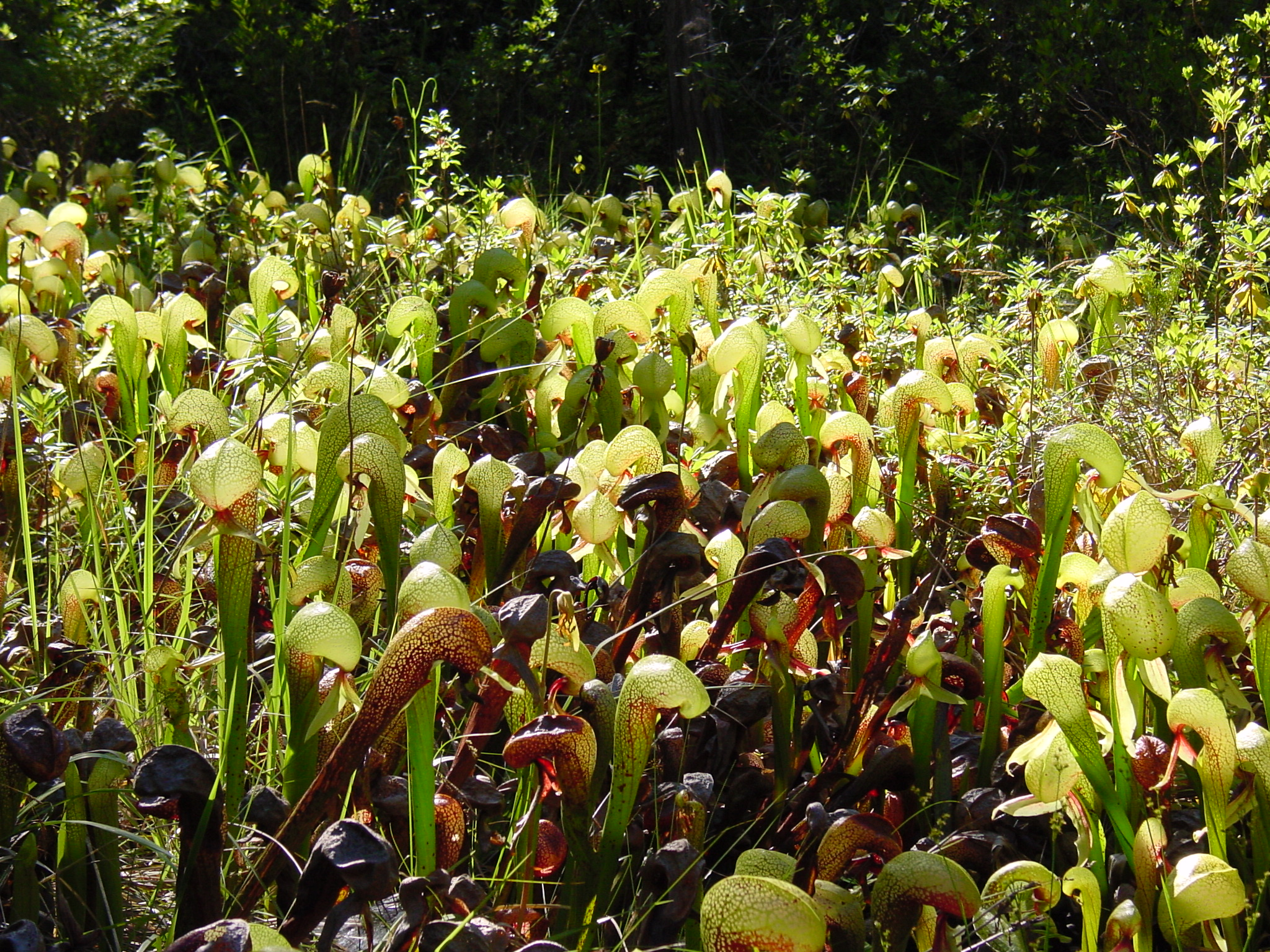 Darlingtonia californica — California pitcher plant. On the "Botanical Trail" at Butterfly Valley Botanical Area (July 7), Sierra Nevada, Plumas County, northern California.